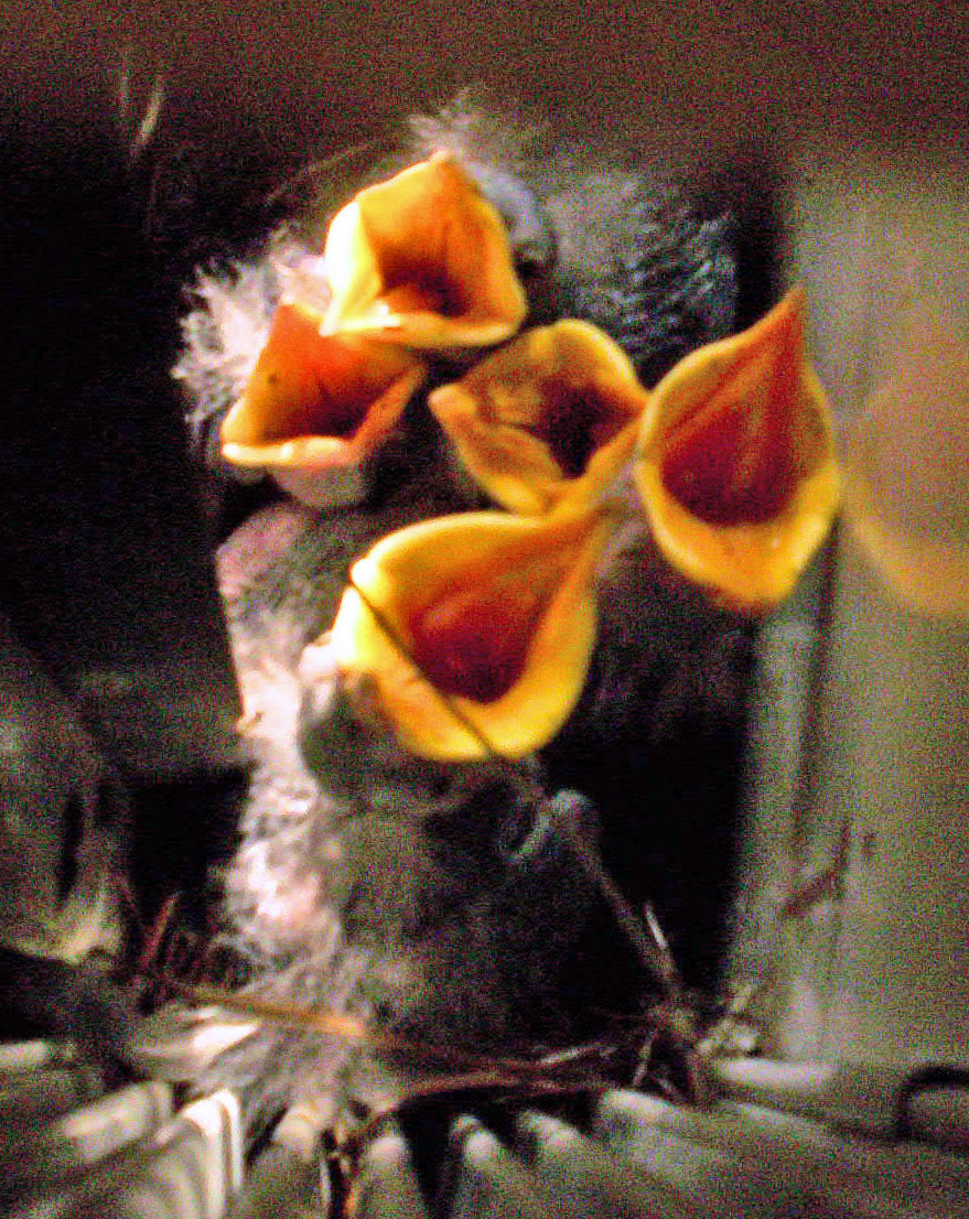 Baby European Starlings nested in an air conditioner duct